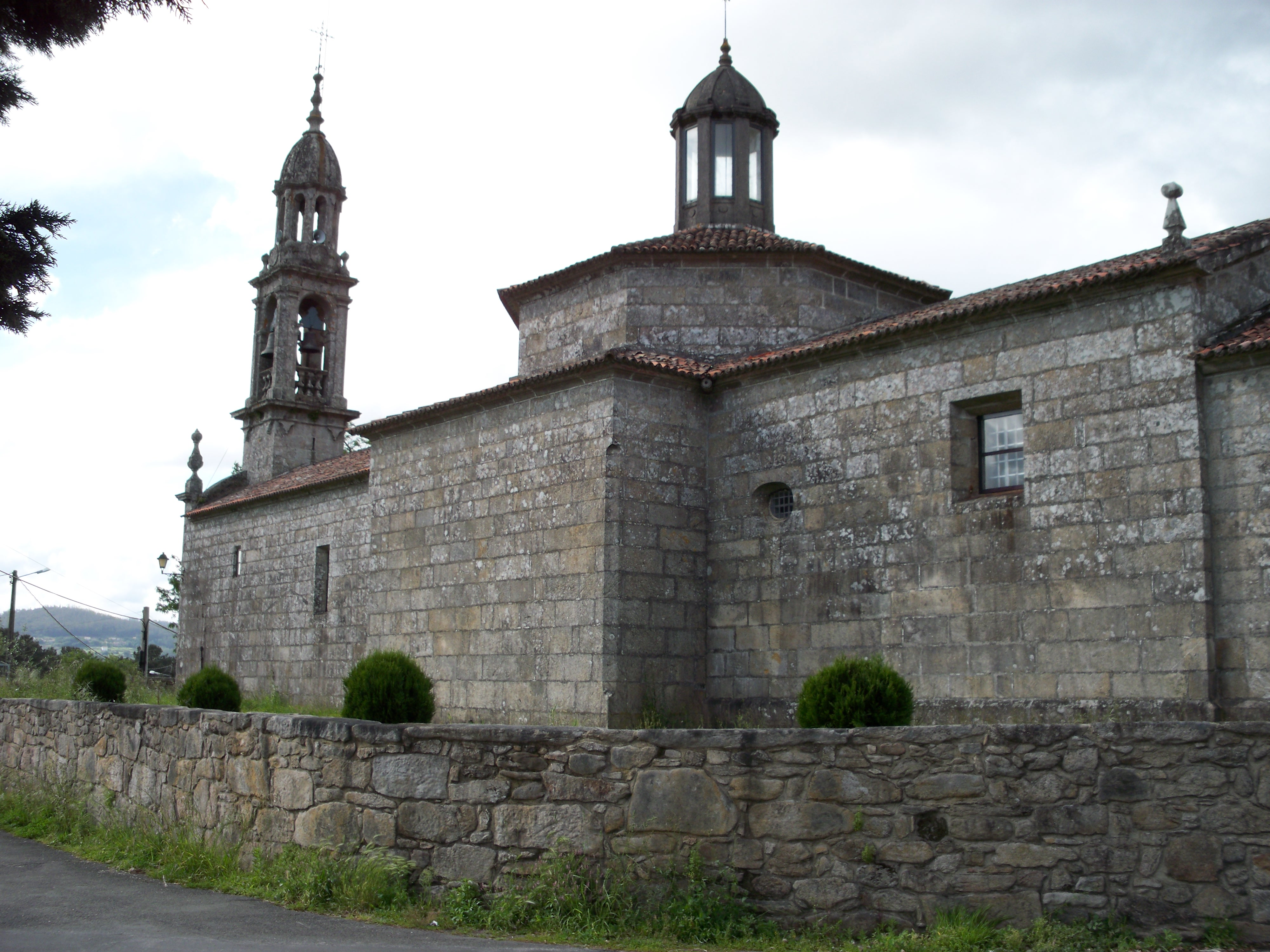 Ortoño´s Church